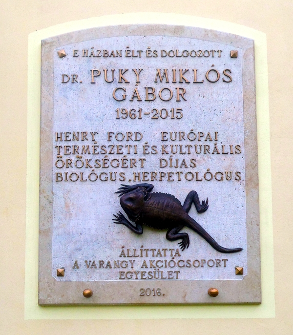 Puky Miklós emléktáblája